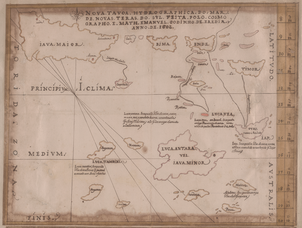 This hydrographic map is the work of Malaysian-Portuguese cartographer Emanuel Godinho de Eredia (1563-1623). At the turn of the 17th century, the Portuguese were exploring southeast Asia from their base in Malacca, searching for the “Islands of Gold” that figured prominently in Malaysian legends. Around 1602, the Viceroy of Portuguese India commissioned an expedition around the islands south of Malaysia and India. Eredia served as a soldier and engineer on the mission and completed this map around the same time. His work, however, is suspected to be based more on the writings of Ptolemy and Marco Polo than on his own experience.